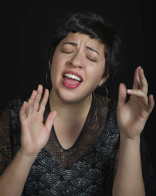 Quilla singing (photo by Steve Clarke)